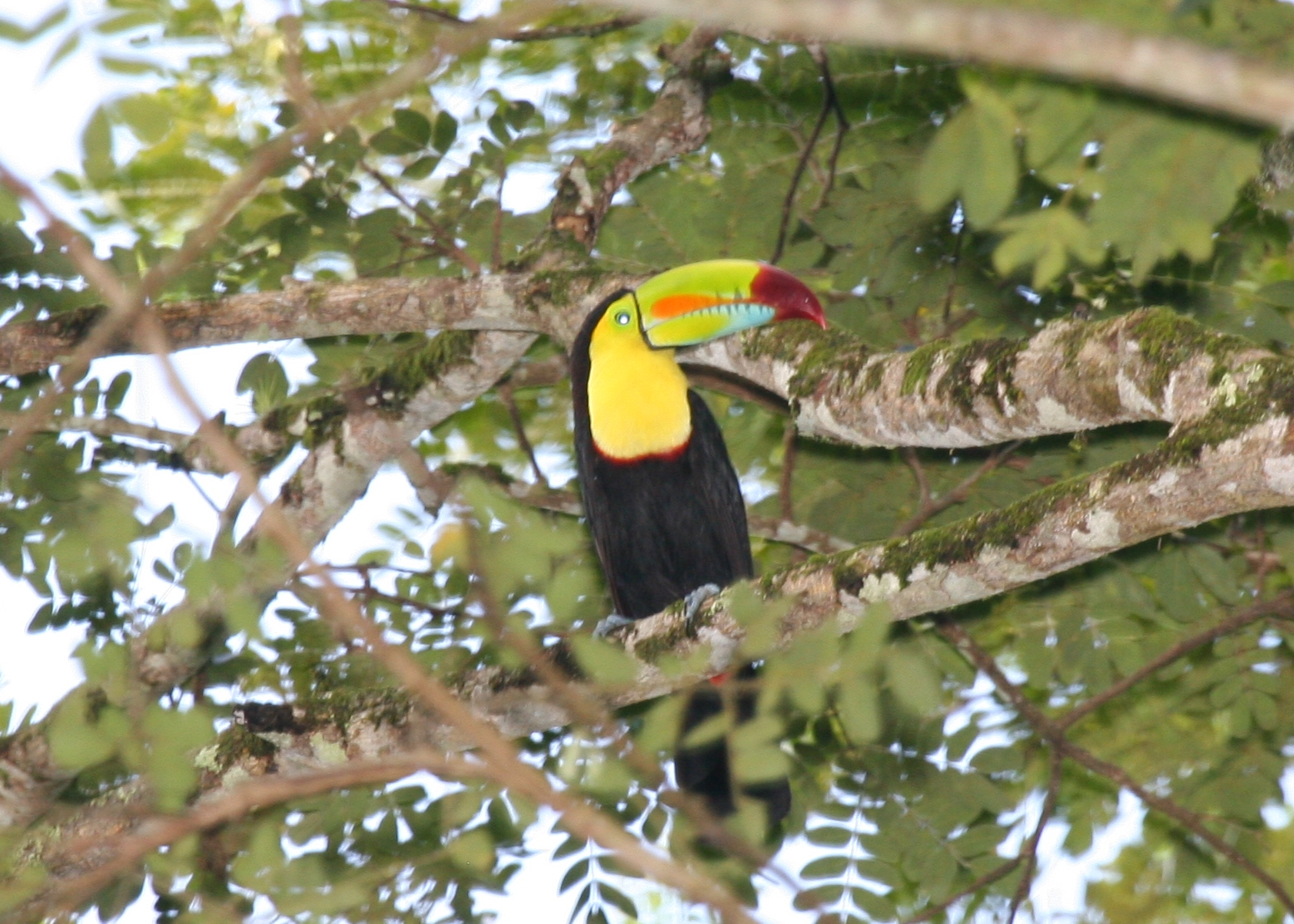 Keel-billed Toucan (Ramphastos sulfuratus) Dysmorodrepanis 20:14, 29 May 2008 (UTC)